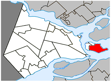 Location of Notre-Dame-de-l'Île-Perrot, Quebec within Vaudreuil-Soulanges Regional County Municipality.